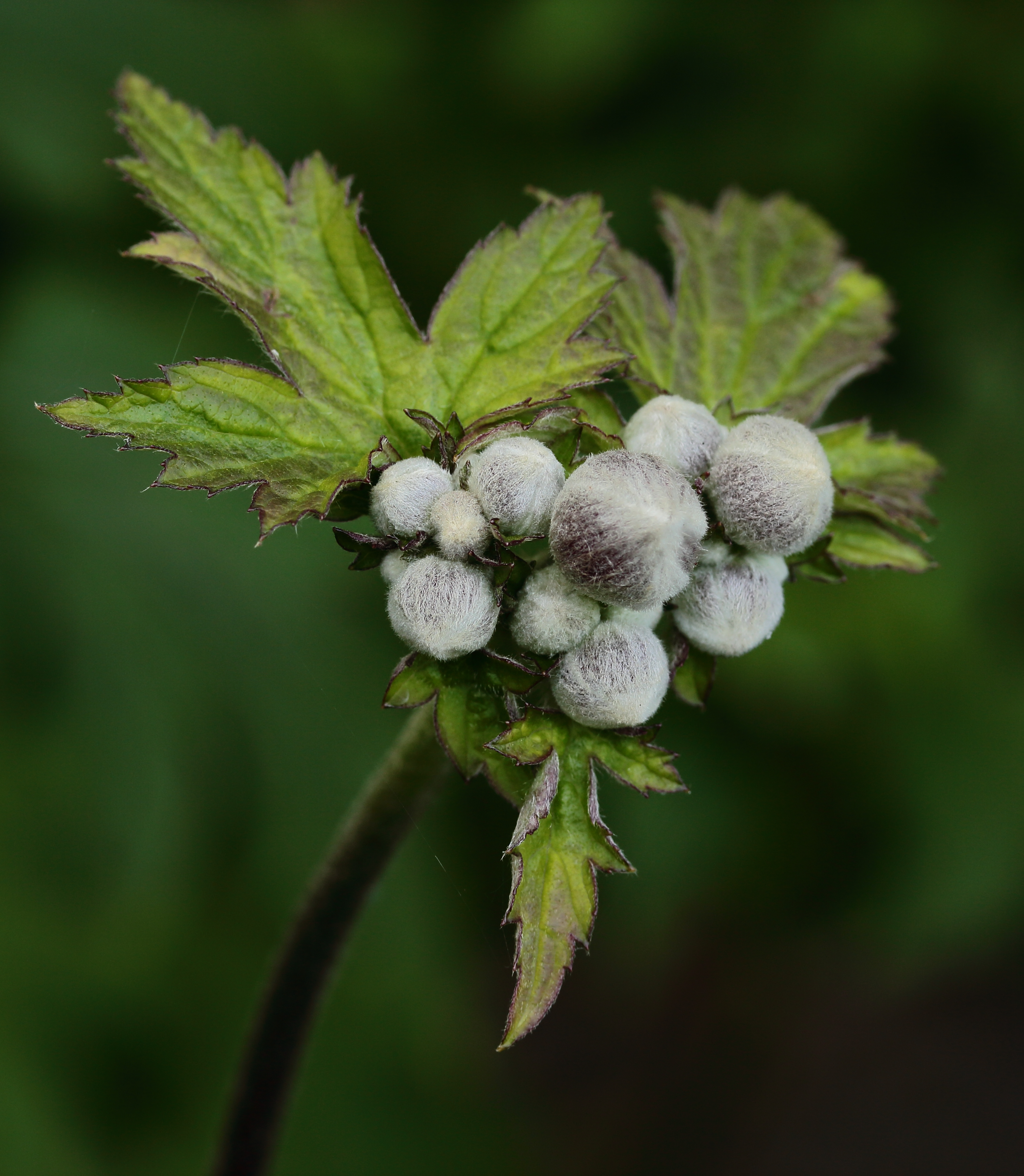 Anemone tomentosa 'Albadura'